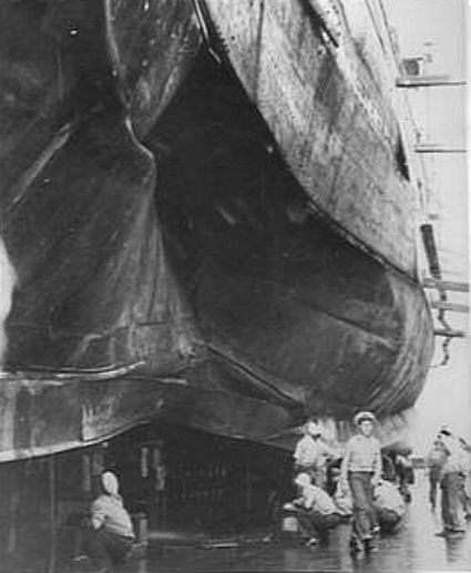 American naval personnel examine the hole caused by a torpedo hit in the hull of the heavy cruiser USS Chester (CA-27) in Sutherland dock of the Cockatoo Island Dockyard, Sydney (Australia). While cruising in support of the operations in the Solomons, Chester was hit by a torpedo from the Japanese submarine I-176 on the starboard side, amidships on 20 October 1942 which killed 11 and wounded 12. She returned to Espiritu Santo under her own power for emergency repairs on 23 October. She steamed to Sydney, Australia, on 29 October for further repairs and on Christmas Day, departed for Norfolk, Virginia (USA), and a complete overhaul.